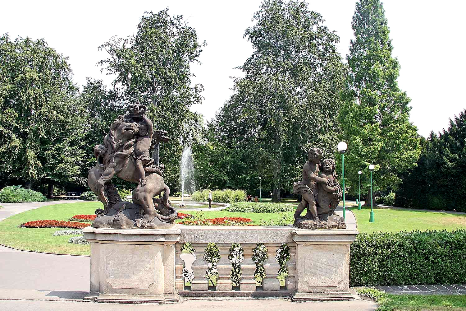 Royal gardens in Prague Castle